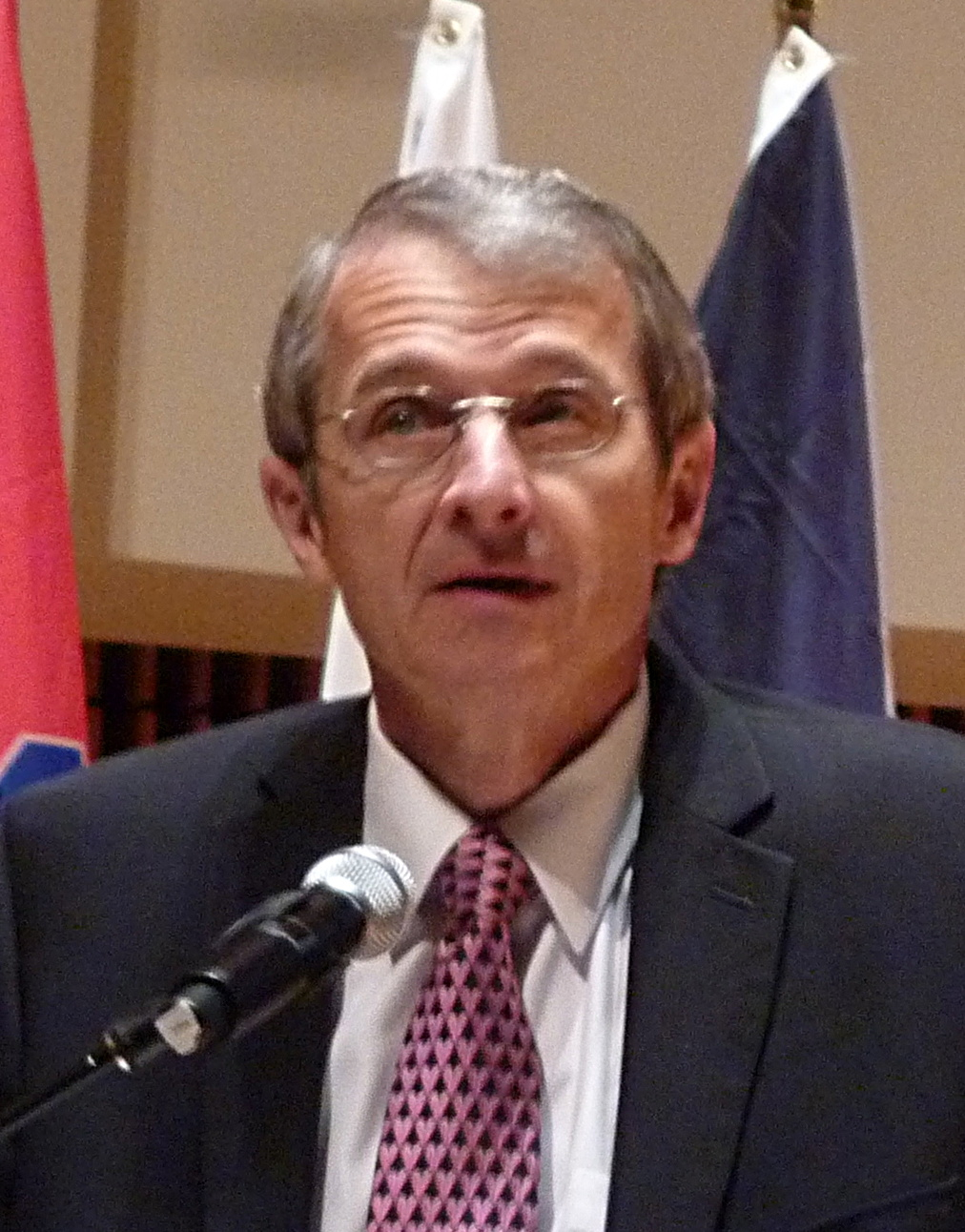 Nobel Prize in Chemistry (2005) Richard R. Schrock during the Opening Ceremony of 44th International Chemistry Olympiad, July 2012, Washington D.C.